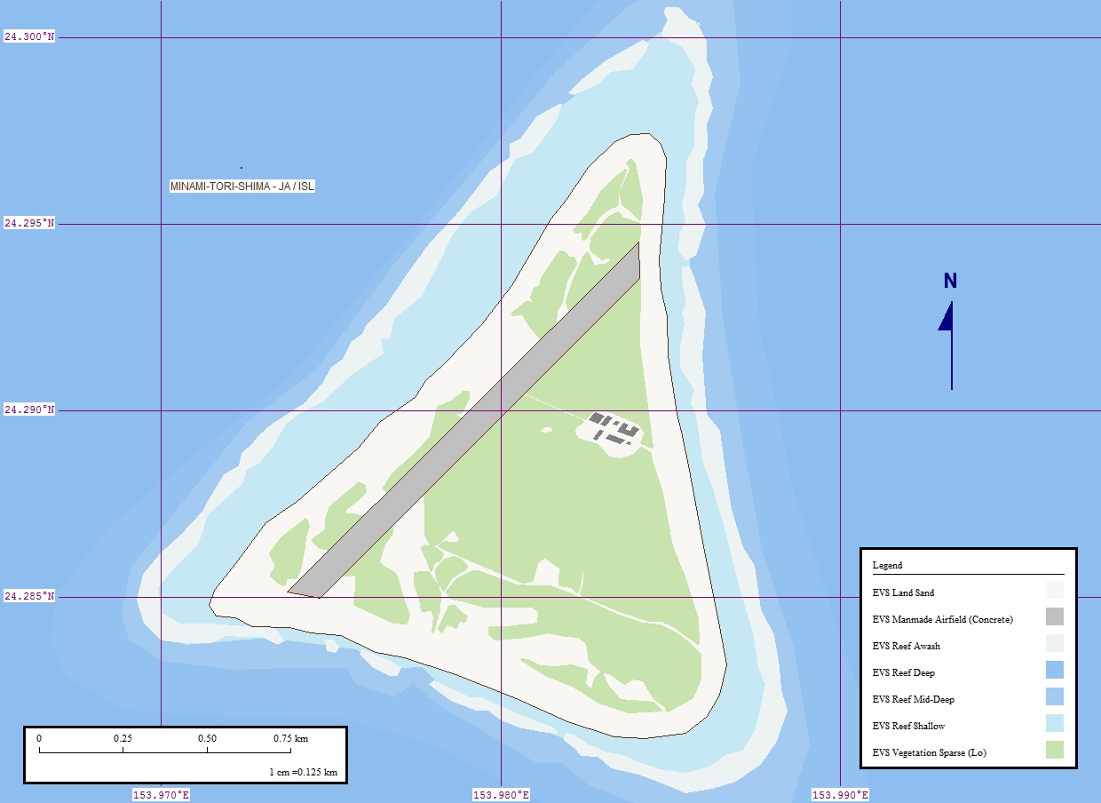 Map of Minami Torishima (also known as Marcus Island), Japan